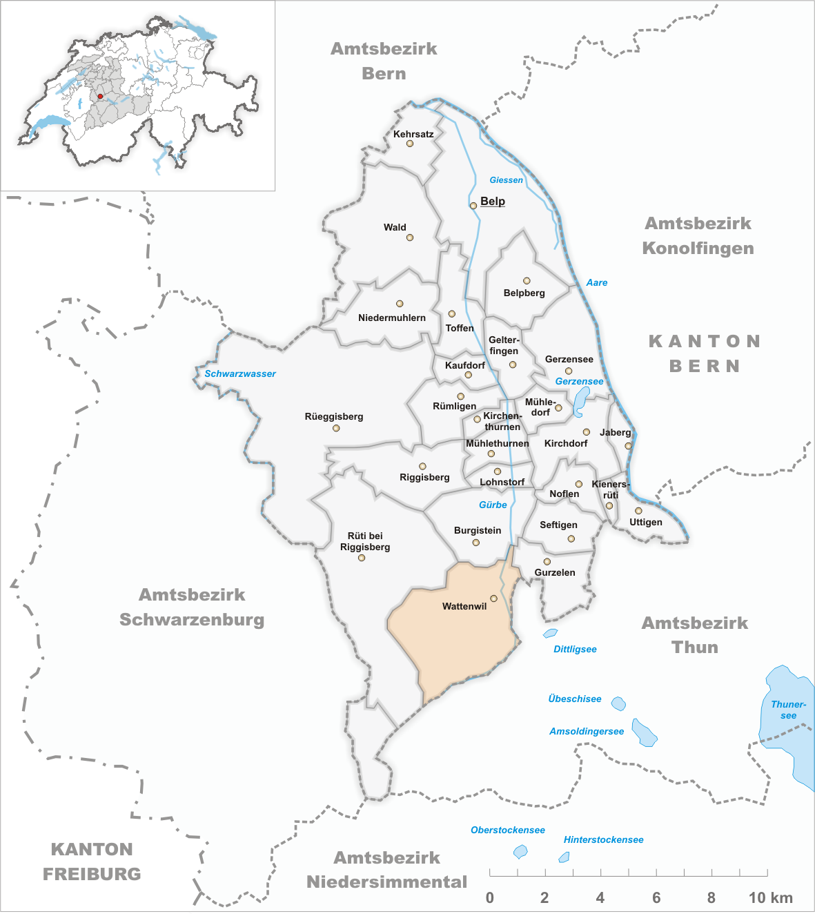 Municipality Wattenwil